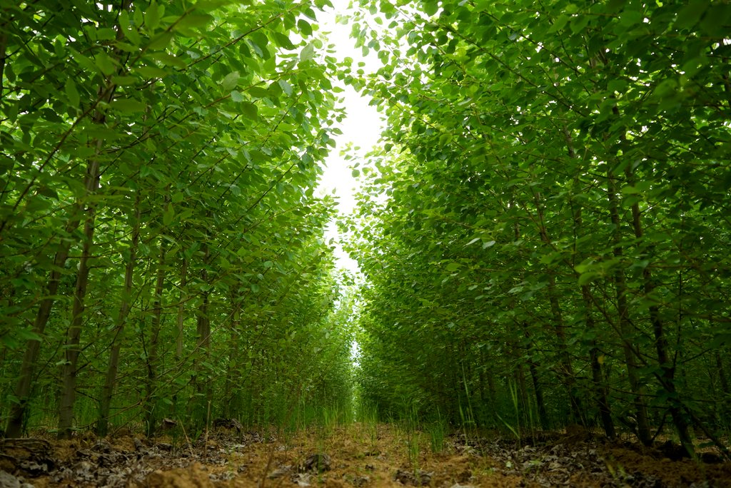 2 years old short rotation poplar plantation in Germany